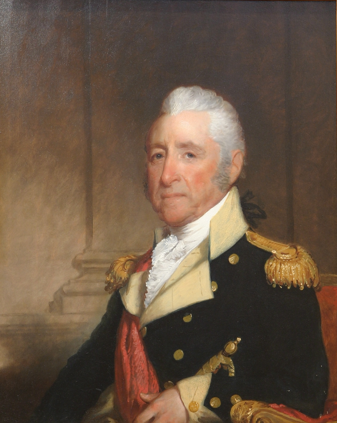 Portrait of Govenor John Brooks